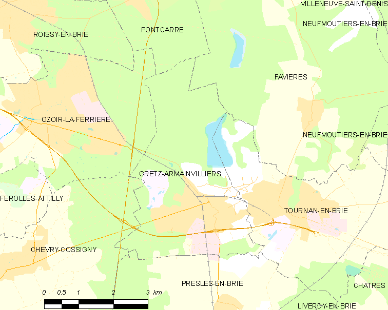 Map of French municipality Gretz-Armainvilliers